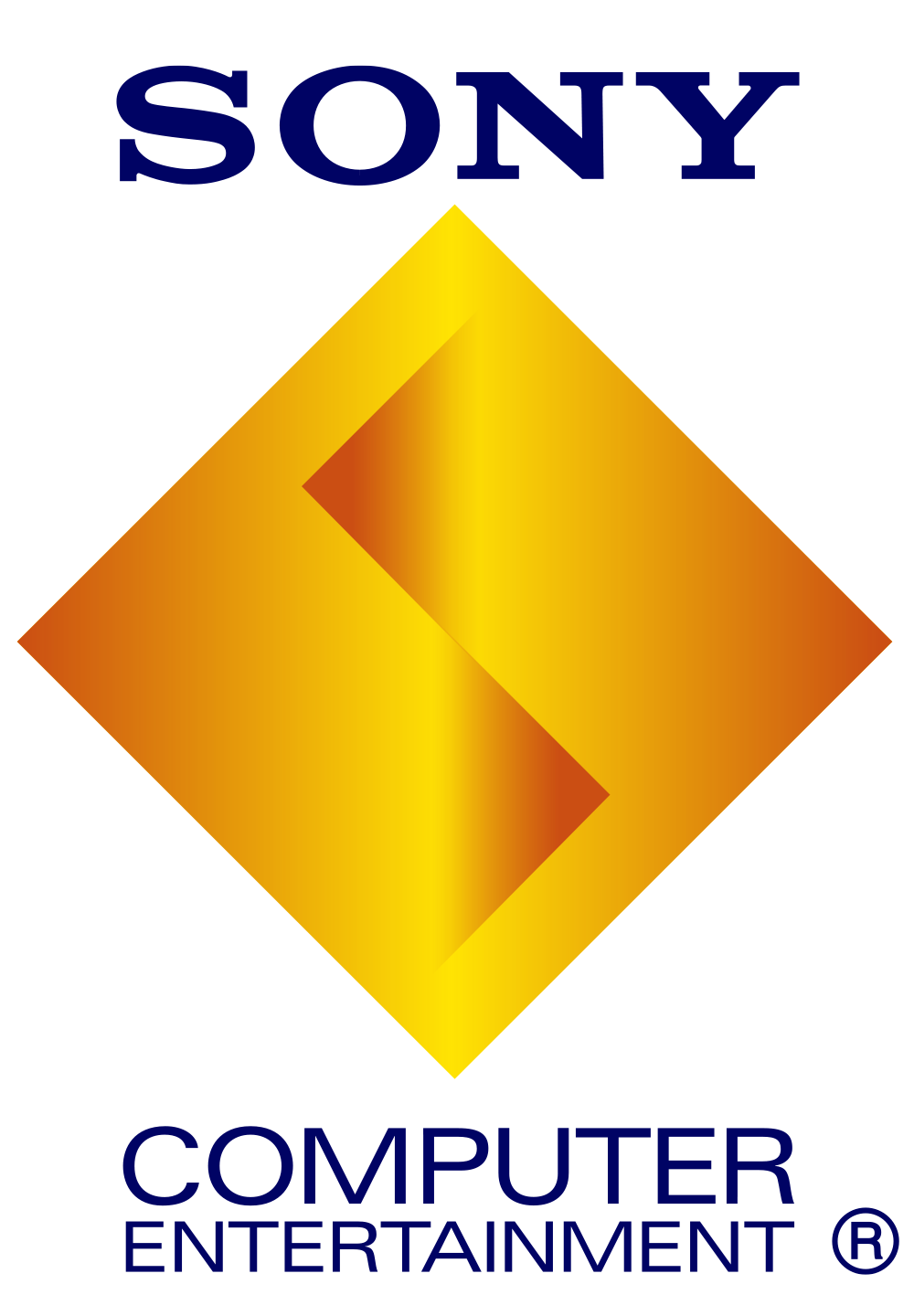 Sony Computer Entertainment logo. 中文（台灣）: 索尼電腦娛樂商標。